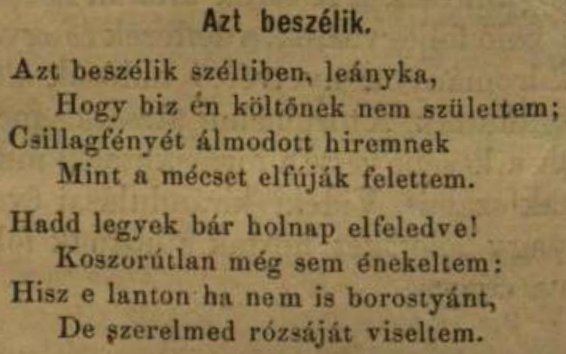 Poem of Kerényi Frigyes